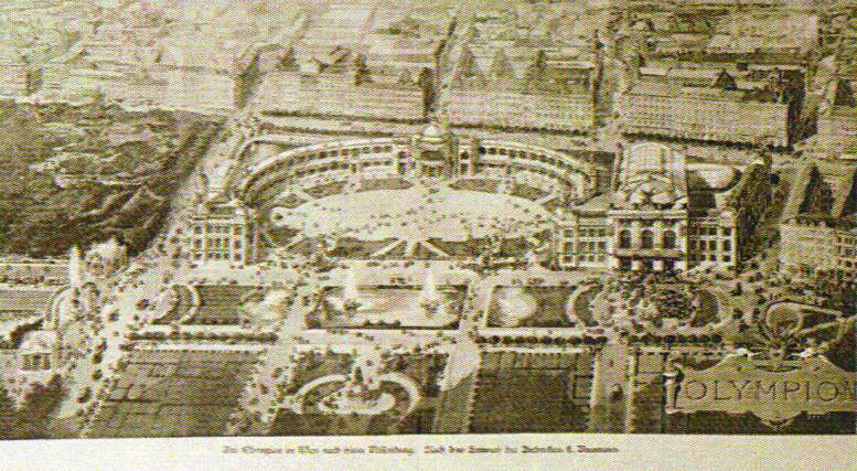 Architect Baumann's grandiose plans for a Viennese "Olympion